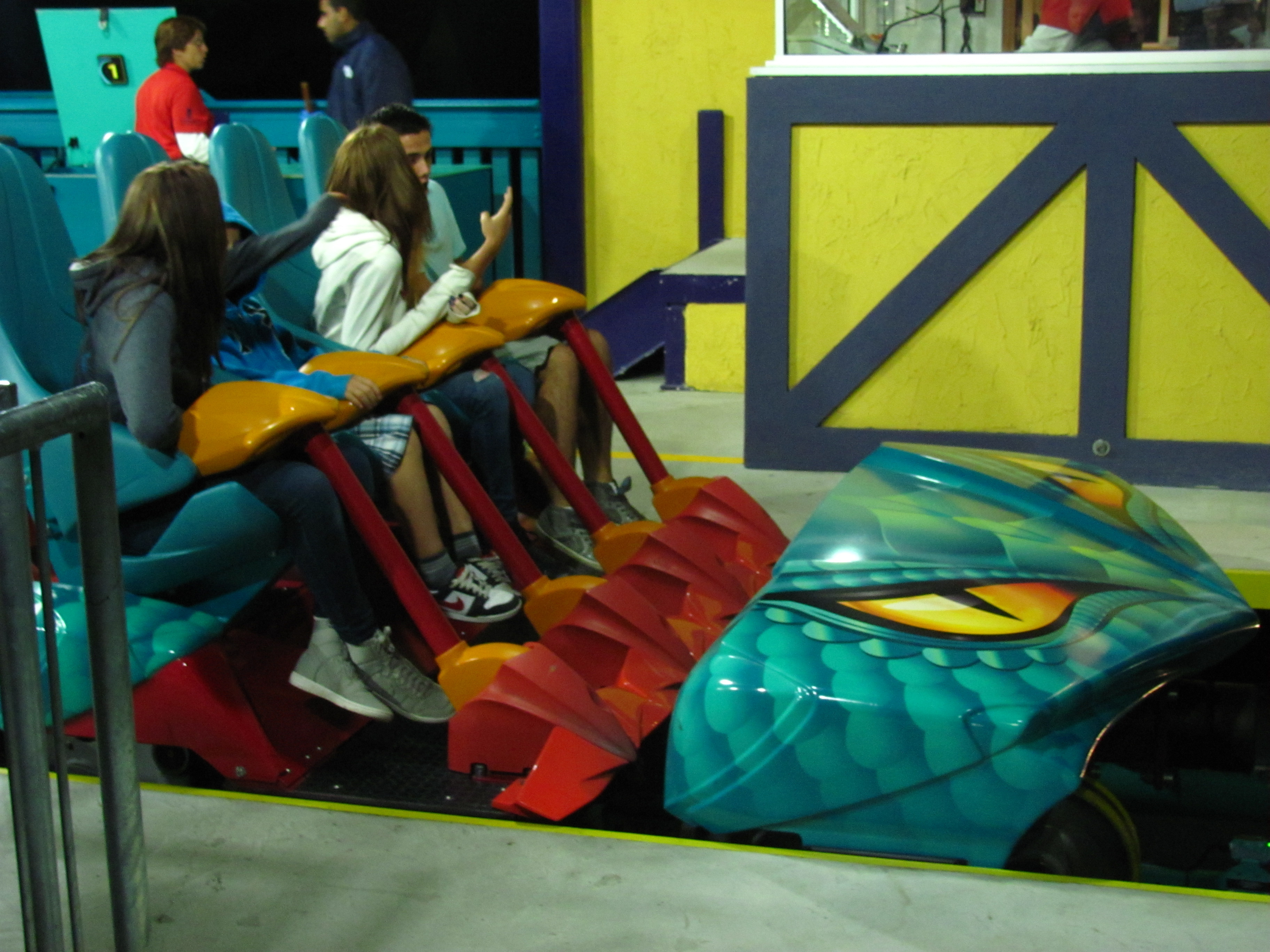 Canada's Wonderland 094